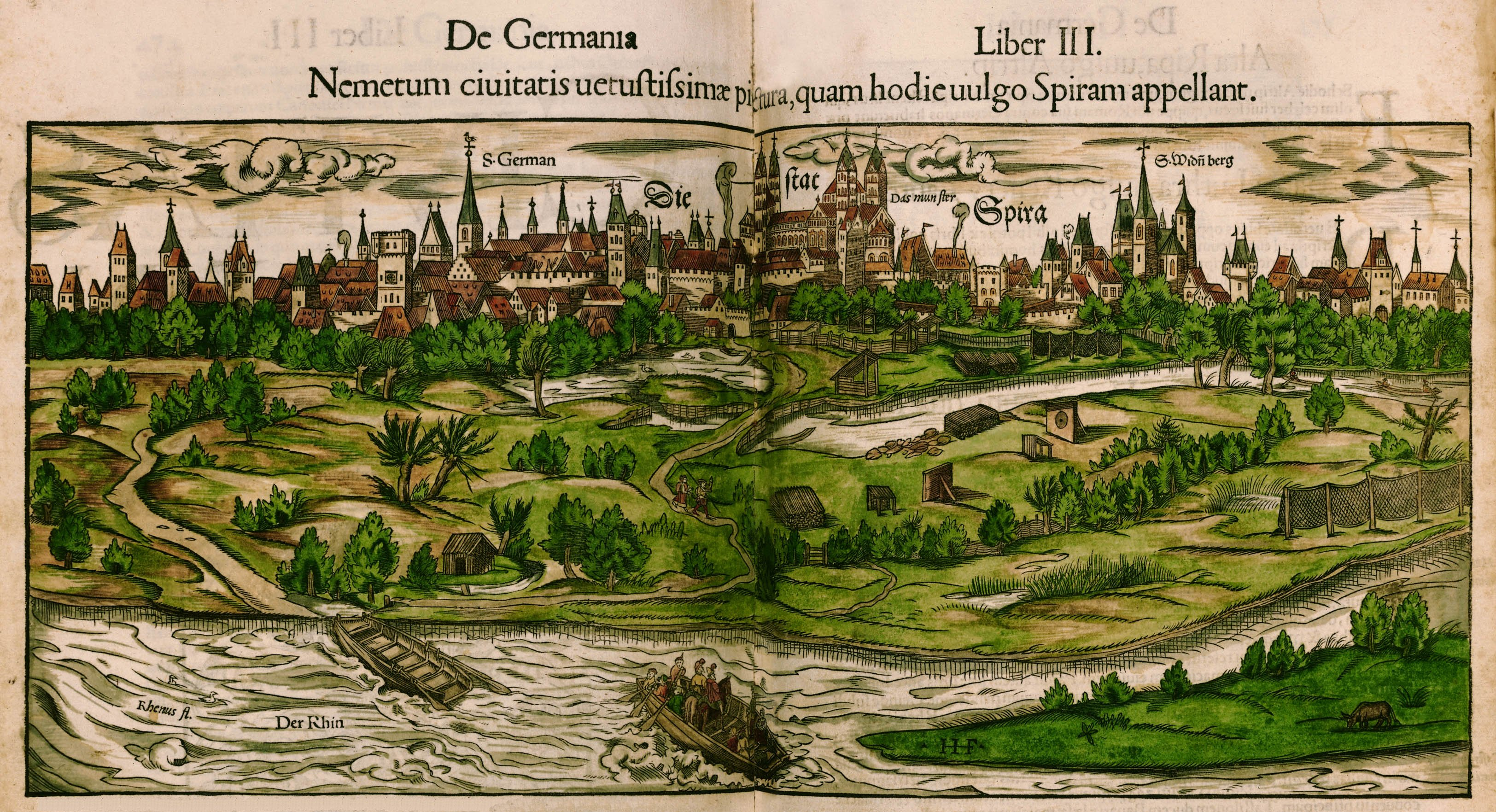 view of Speyer